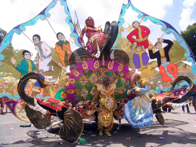 A Carnival Costume in Trinidad's Carnival